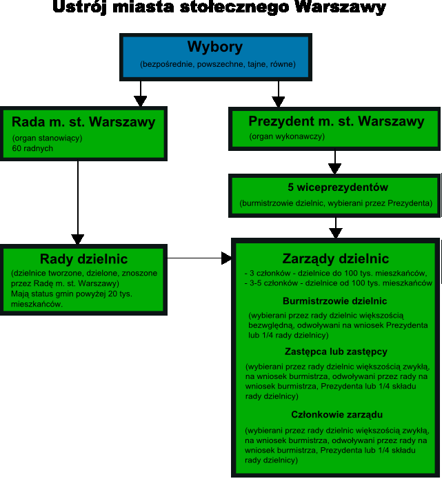 Made by me with Inkscape.